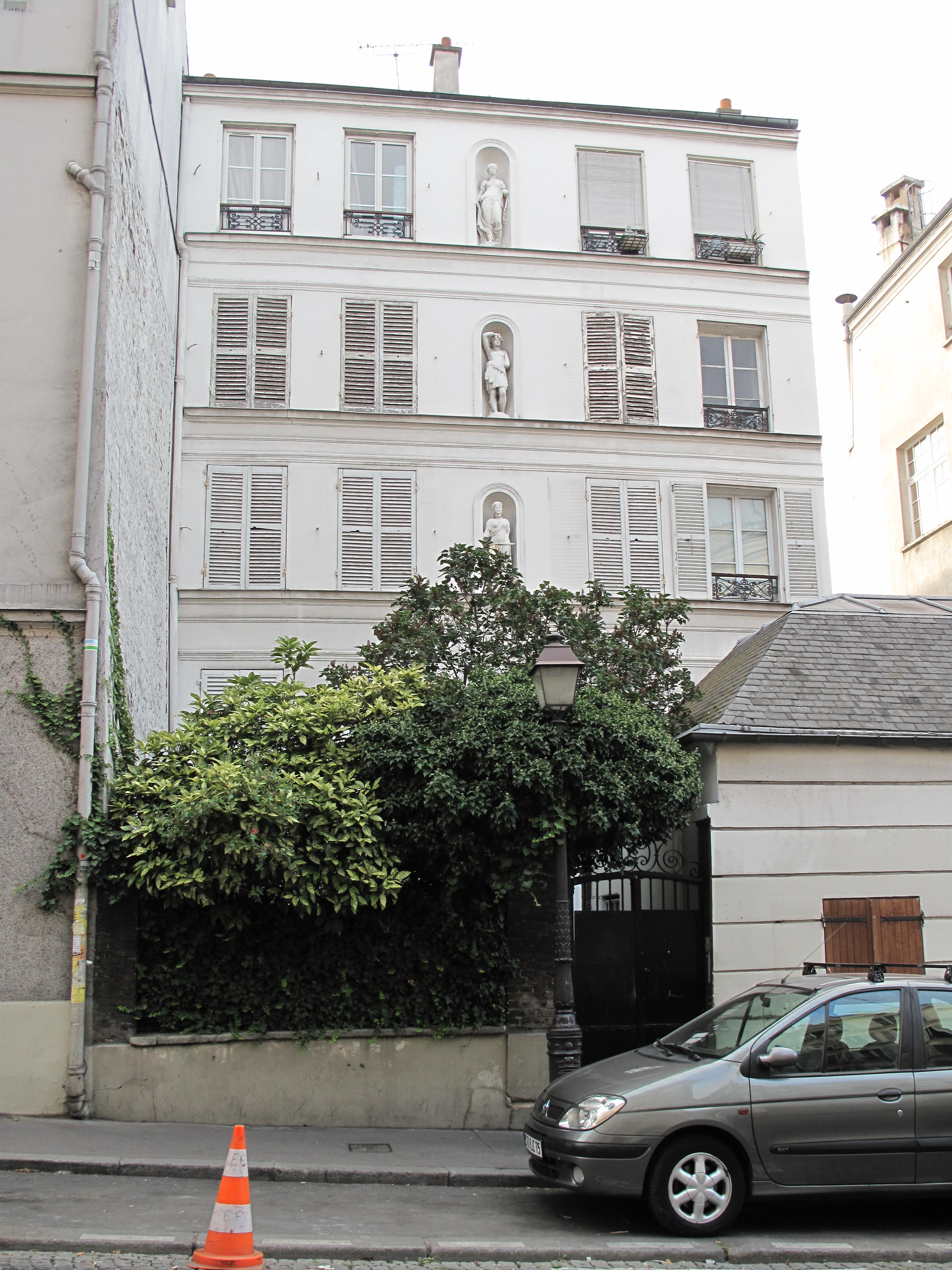 Facade with statues in boxes : 66 rue Lepic, Paris 18th arr.